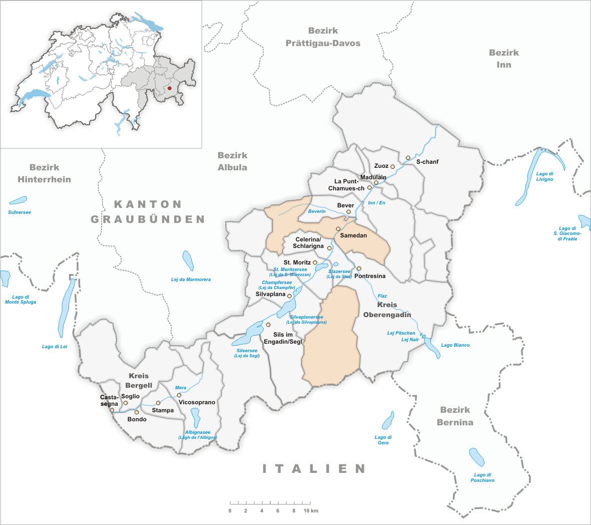 Municipality Samedan